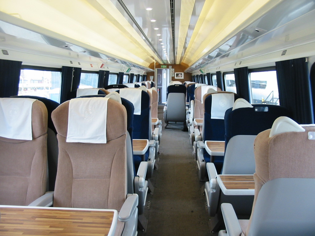 The interior of a British Rail mark 4 first class carriage. The carriage was refurbished shortly before this photograph was taken as part of the GNER "Mallard" programme of investment in updating the Intercity 225 fleet. This photograph was taken at the Rail 200 Railfest at the National Railway Museum in York